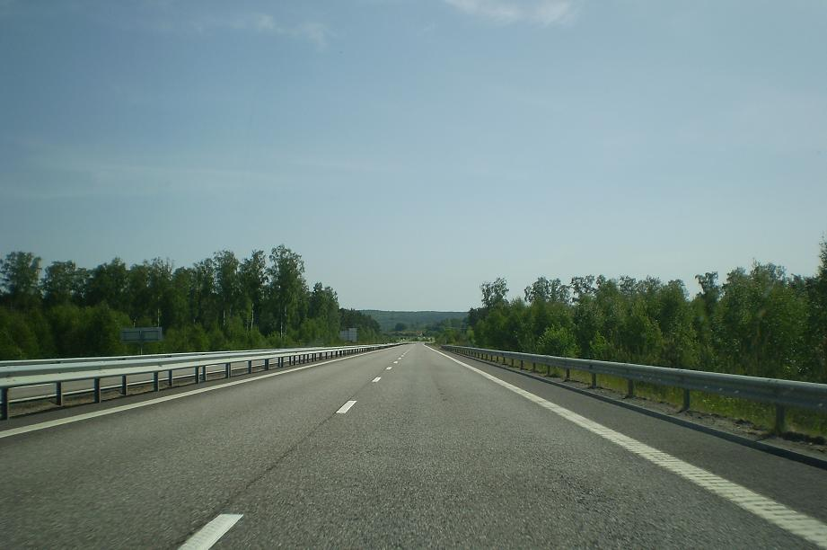 E22 between Bromölla and Sölvesborg on the border between Scania and Blekinge. In the background the hill Ryssberget